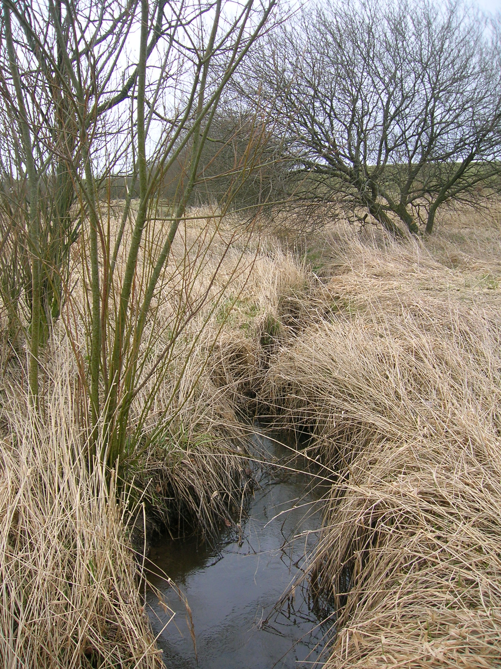 The Highgate Burn near the loch with associated willows, etc. Blae Loch, Hessilhead, Beith, North Ayrshire, Scotland.